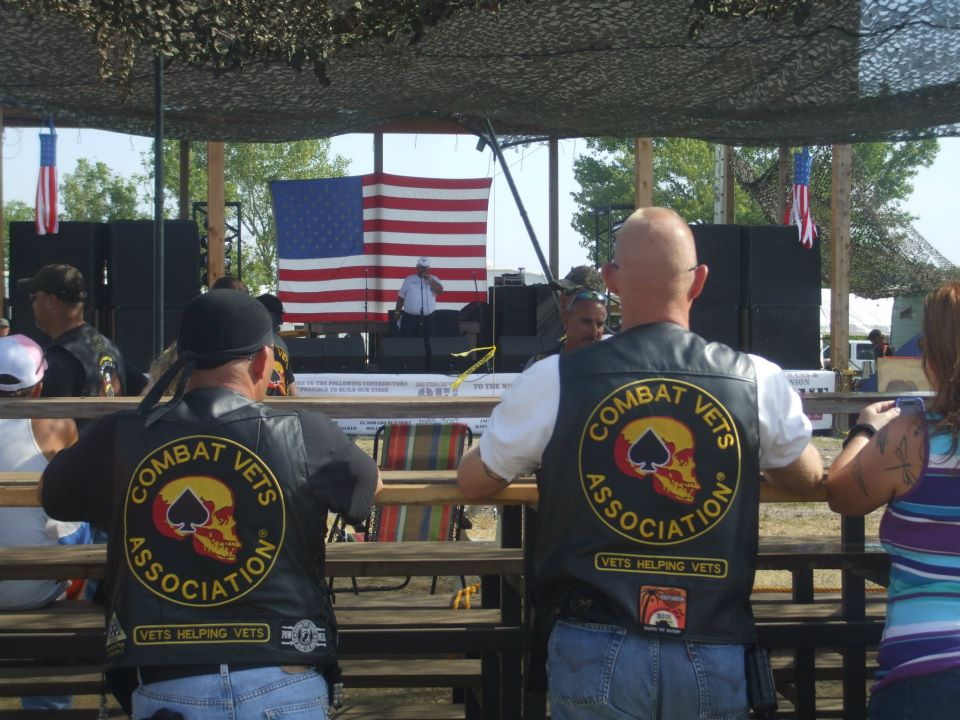 The CVMA's full members patch as worn by most in typical configuration.